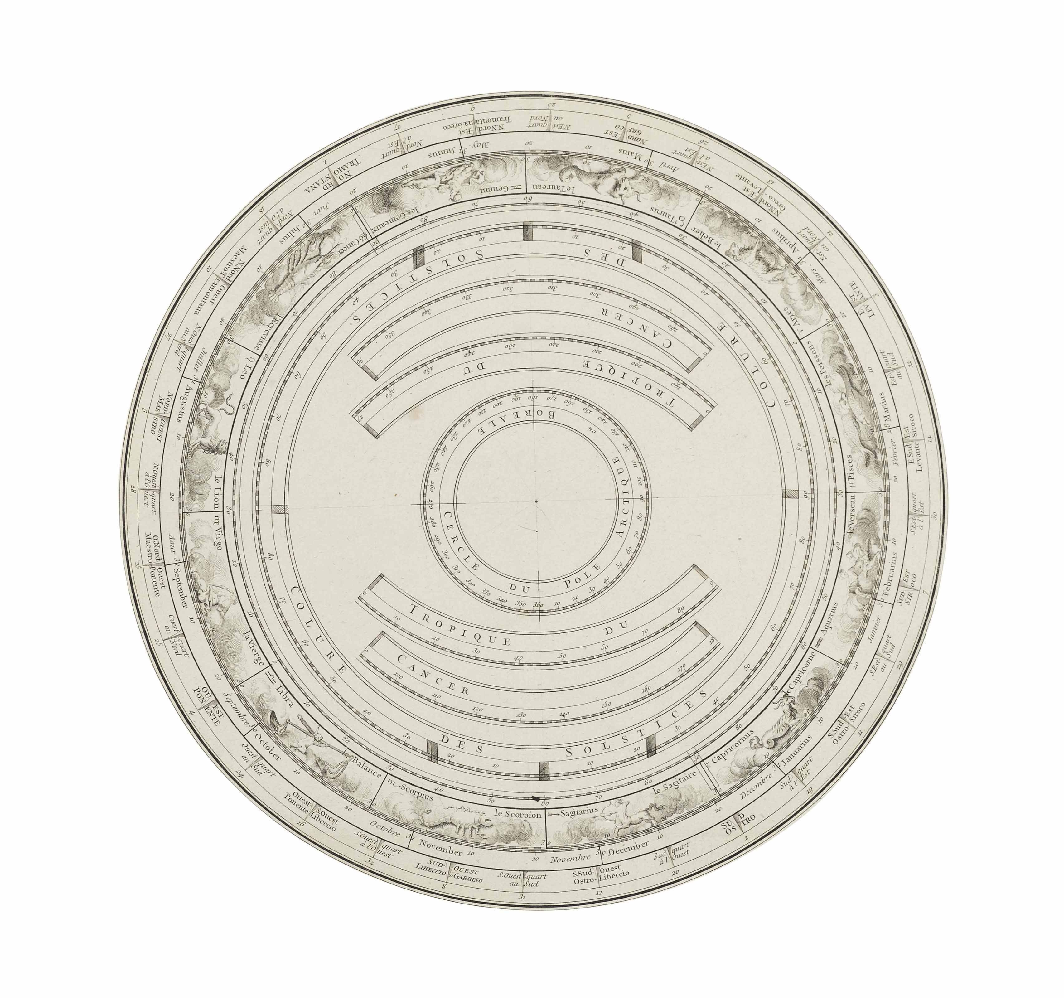 Four sheets containing horizon and ecliptic rings, hour ring, arctic ring, four arcs for tropic of cancer, colure for the solstices, calendrical horizon, antarctic ring, four arcs for tropic of capricorn, colures for the equinoxes, meridian ring.